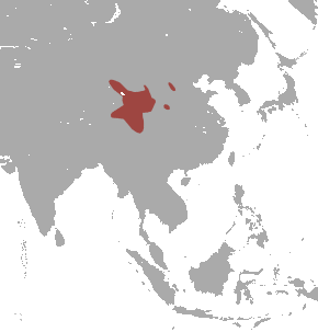 Gansu Pika (Ochotona cansus) range